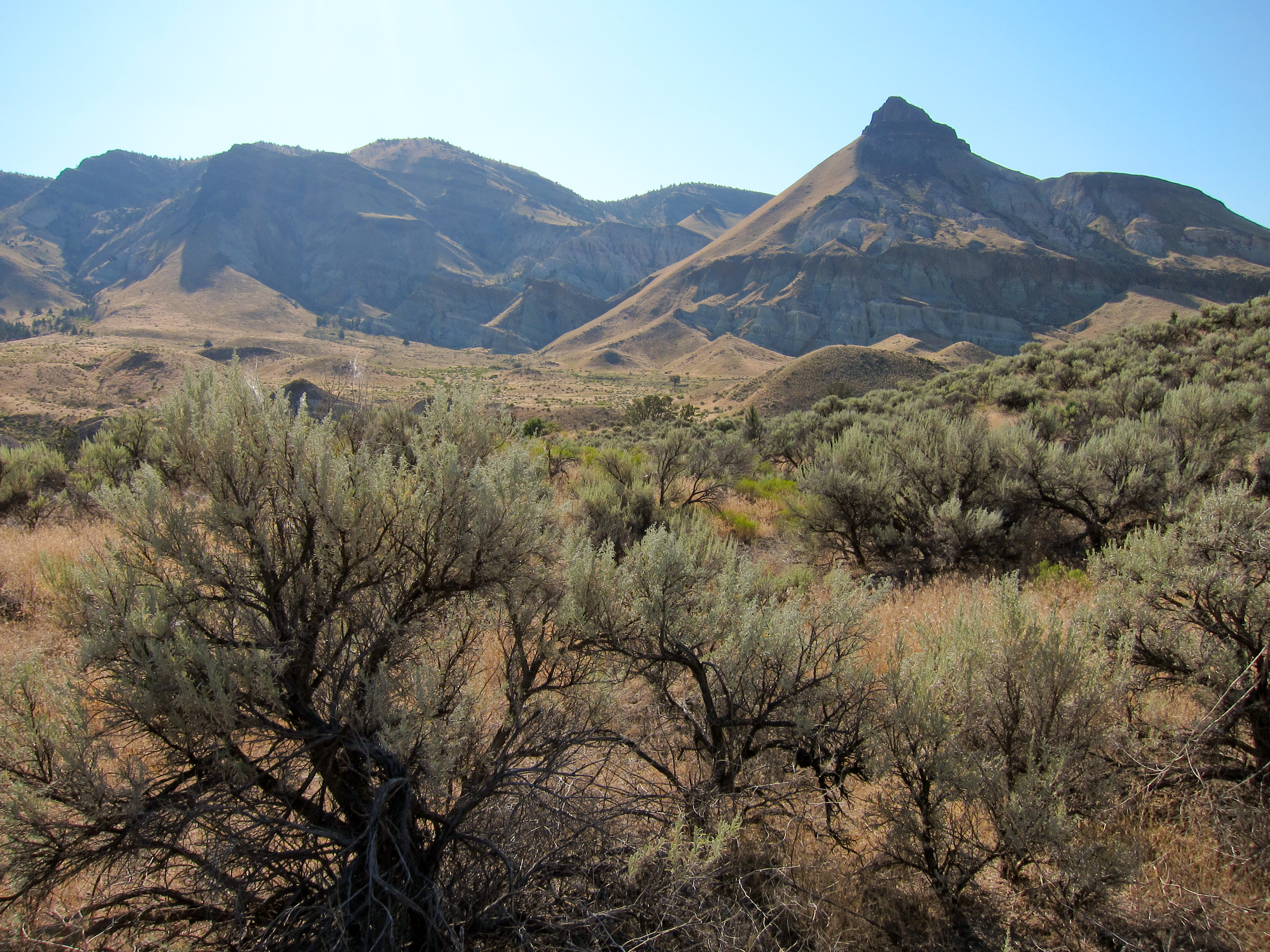 Sheep Rock at John Day Fossil Beds National Monument